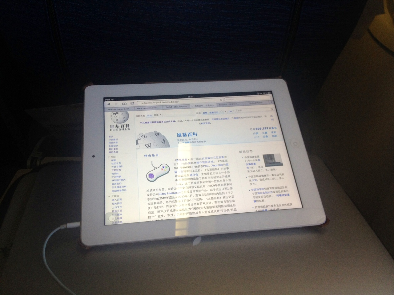 The Internet Access on United 858 SFO - PVG